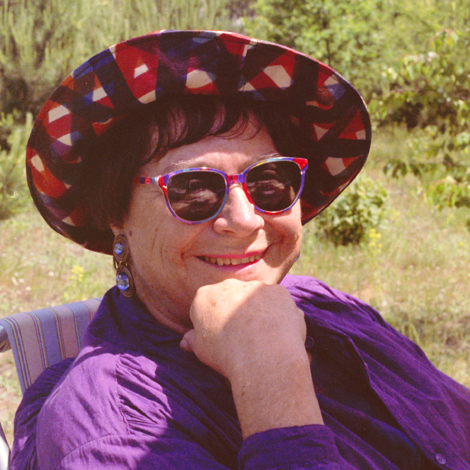 Dr Marlene Johanna Norst in Warsaw, Poland 1995